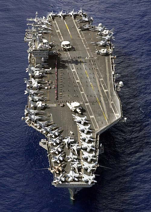 031103-N-6536T-003 Pacific Ocean (Nov. 3, 2003) -- USS Nimitz (CVN 68) crewmembers participate in a flag unfurling rehearsal with the help of family and friends on the ship’s flight deck during a relatives cruise (called a Tiger Cruise). The Nimitz Carrier Strike Group and embarked Carrier Air Wing Eleven (CVW-11) are en route to San Diego, Calif., following an eight-month deployment to the Arabian Gulf in support of Operation Iraqi Freedom. U.S. Navy photo by Photographer’s Mate 3rd Class Elizabeth Thompson. (RELEASED) “This is a World Wide Web site for official information about the United States Navy. It is provided as a public service by the Naval Media Center. The purpose is to provide information and news about the U.S. Navy to the general public. All information on this site is public domain and may be distributed or copied unless otherwise specified. Use of appropriate byline/photo/image credits is requested.” Picture prepared for Wikipedia by Adrian Pingstone in November 2003.